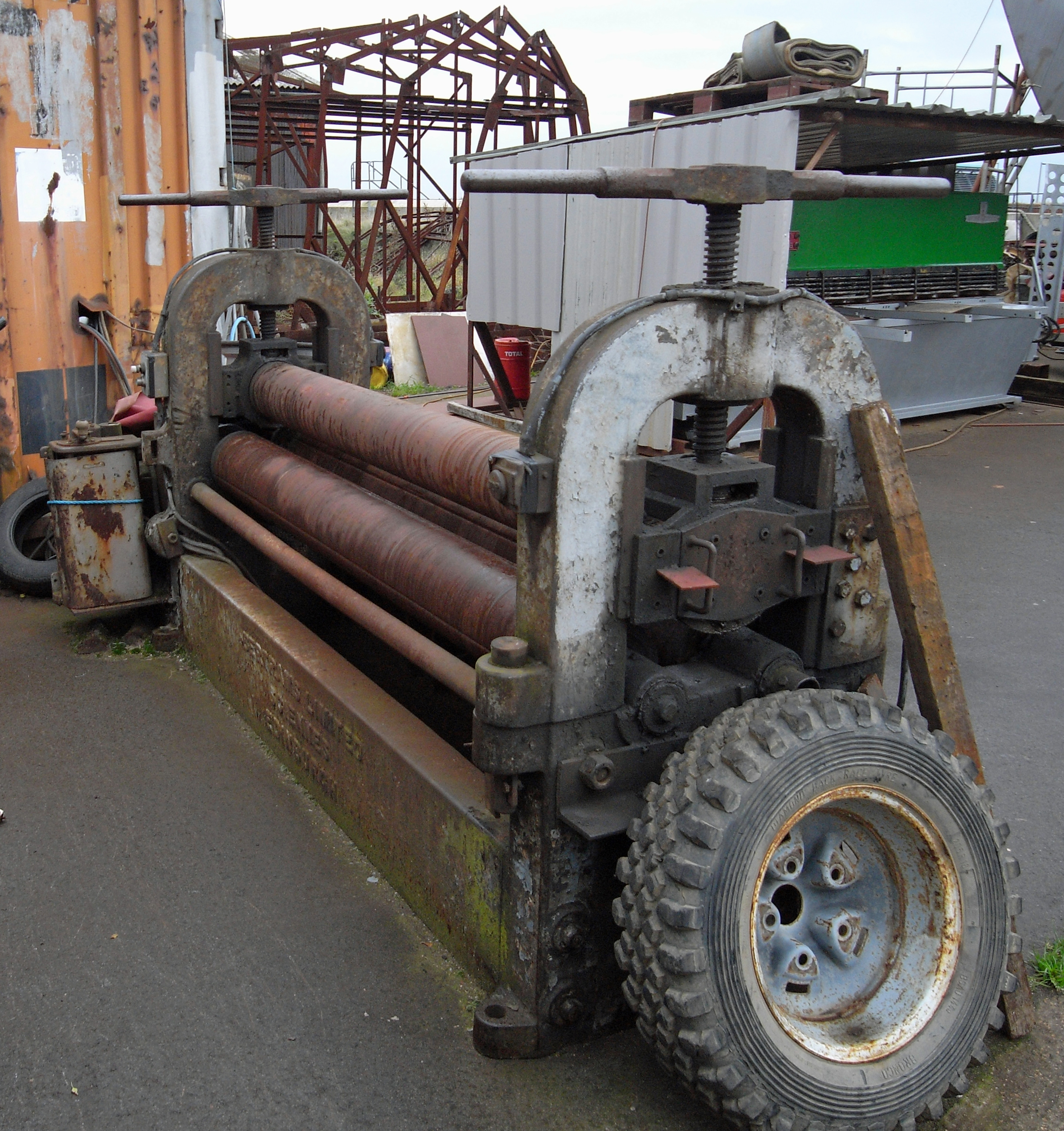 I'm no expert on industrial machinery but this appears to be a plate bending machine, it is marked as made at Edinburgh. Installed in the premises of Offshore Steel Boats at Barton Waterside. If anyone can decipher the makers name on the base please let me know.